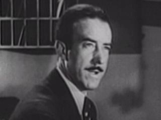 Don Brodie from the public domain movie Second Chorus